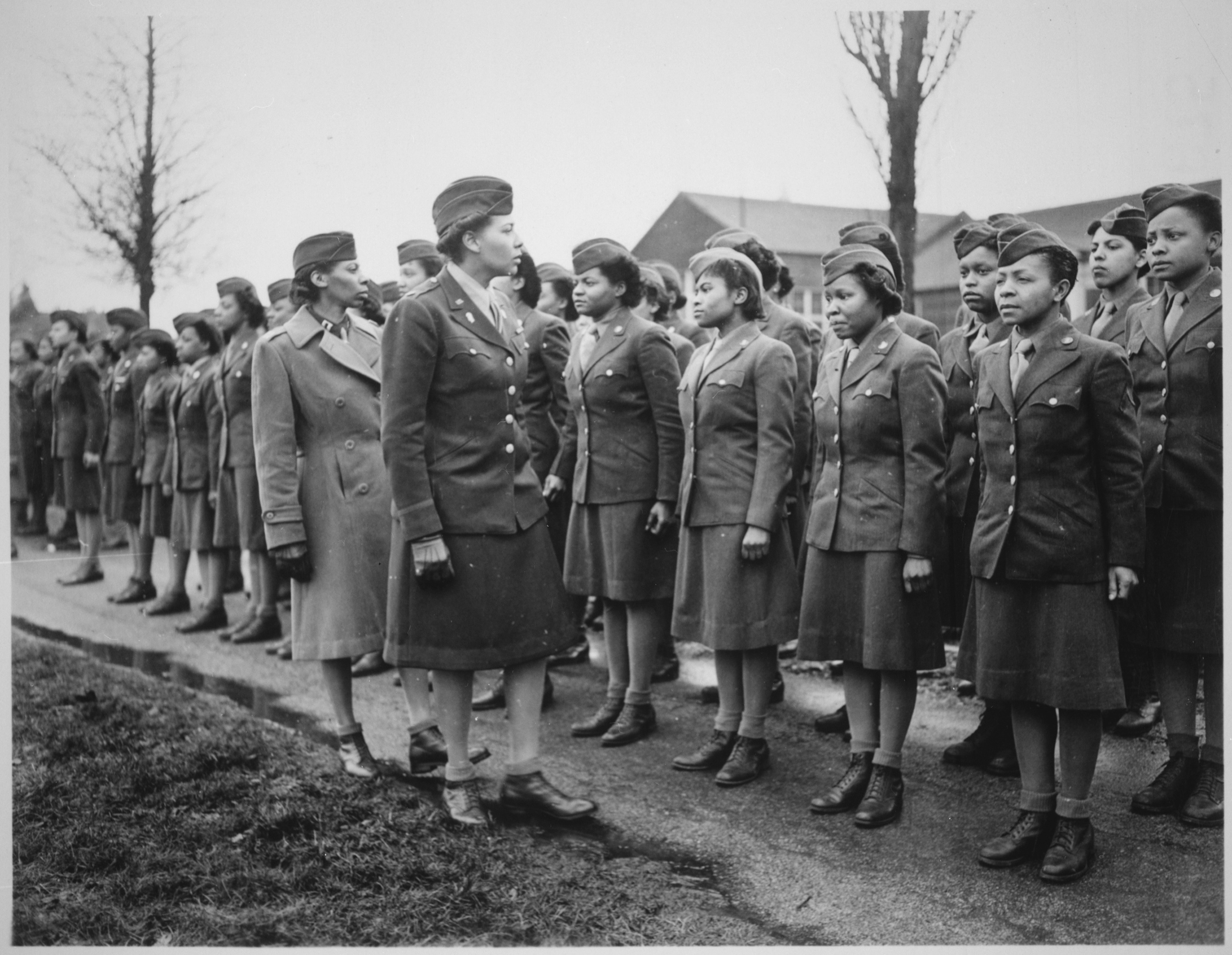 Scope and content: 6888th Central Postal Directory Bn.